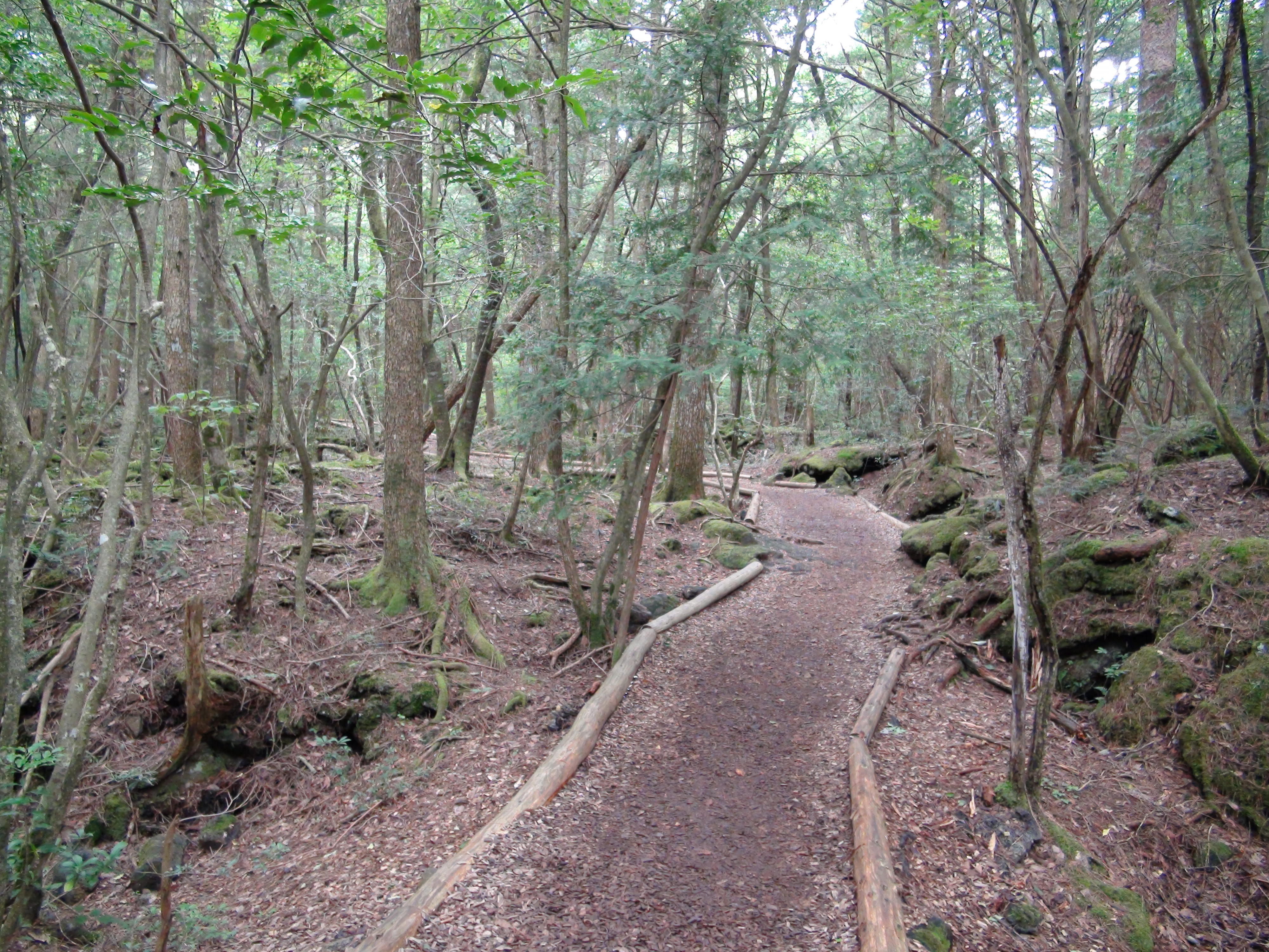 Trail toward the Lake Saiko Bat Cave